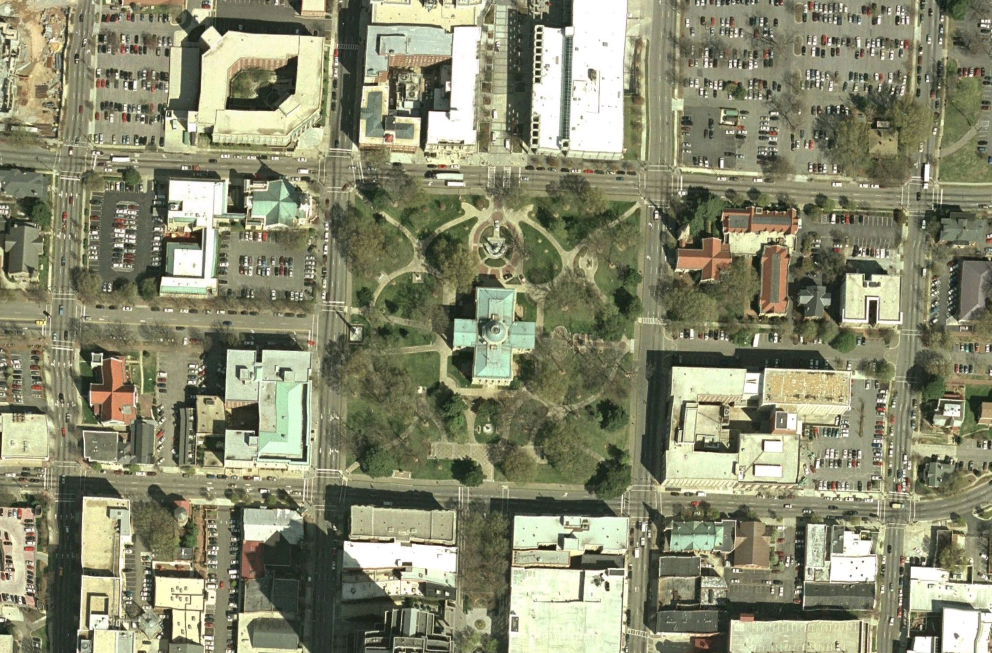 Capitol Raleigh satellite view, nasa world wind 1.3.5